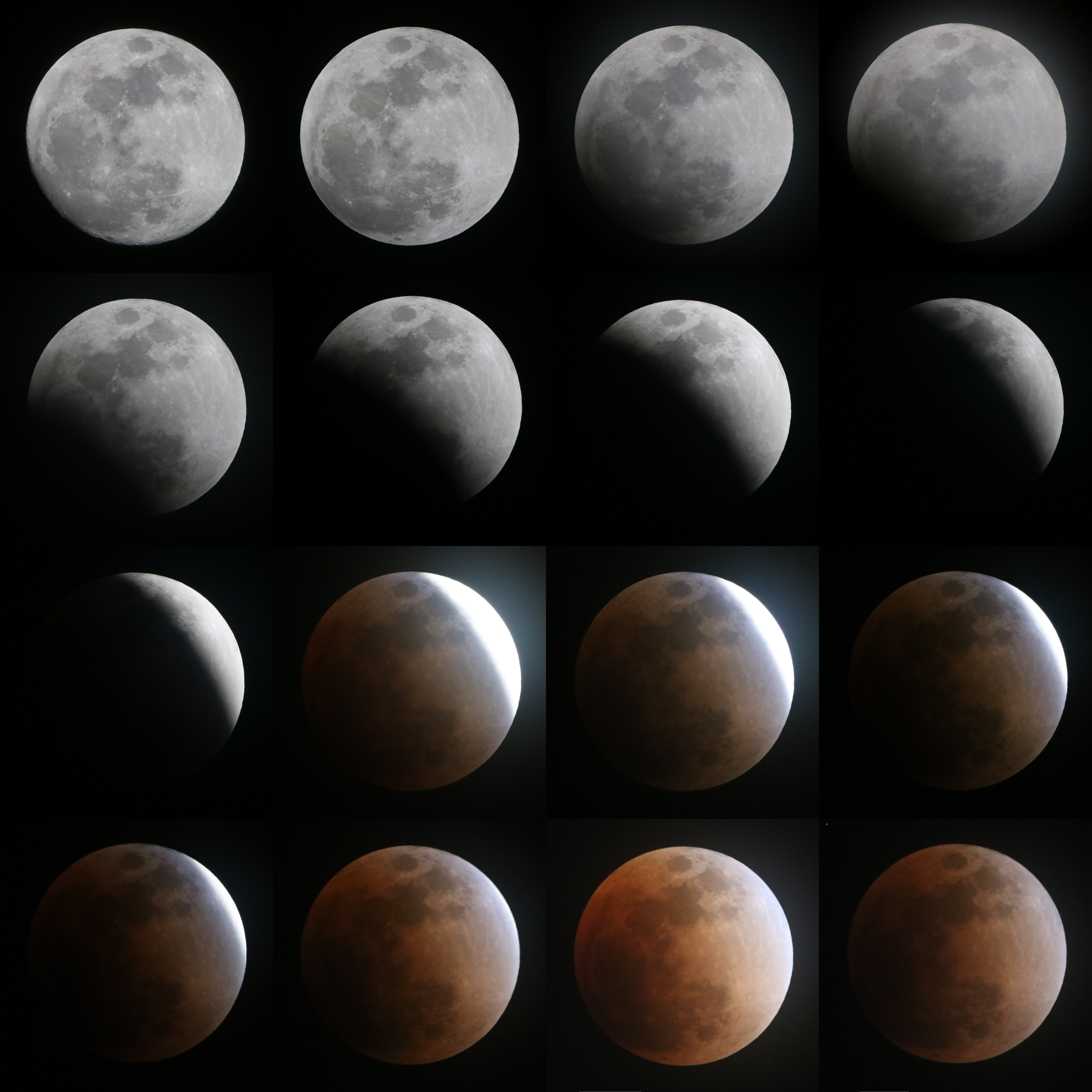 Montage of Lunar eclipse on January 31, 2018 in Aichi Prefcture, Japan.